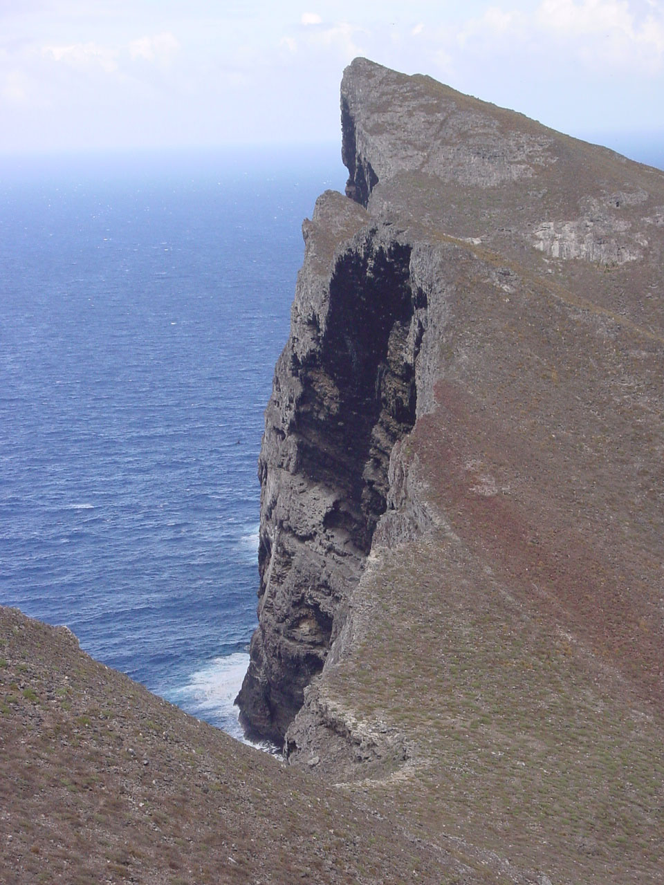 Tanager Peak (852 ft.), Nihoa Island, Northwestern Hawaiian Islands